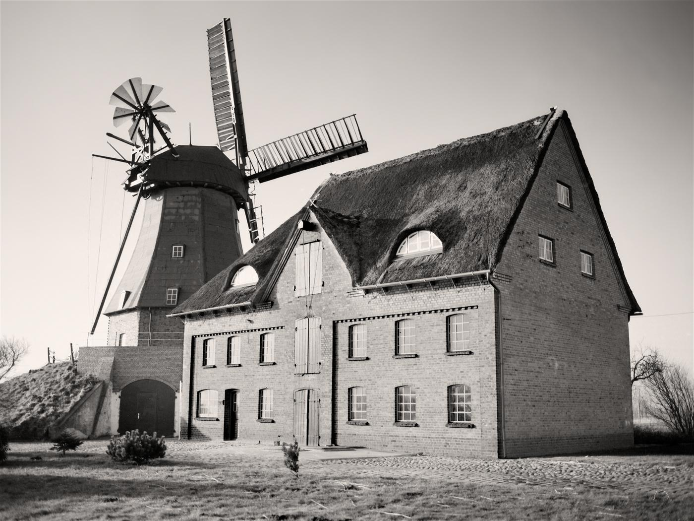 Kollmar (Schleswig-Holstein, Germany), late mill and barn, photo 1981